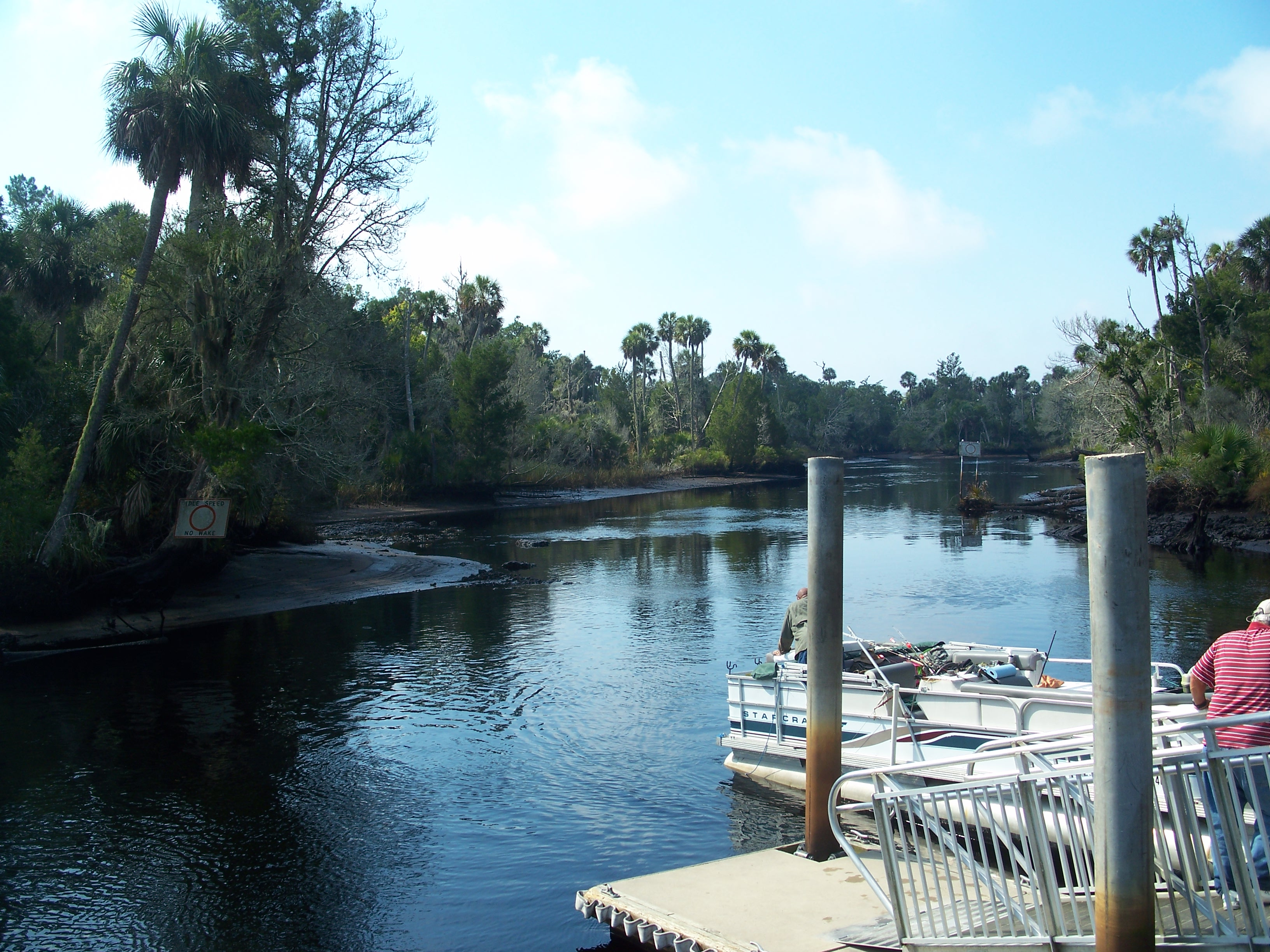 Econfina River State Park: Econfina River